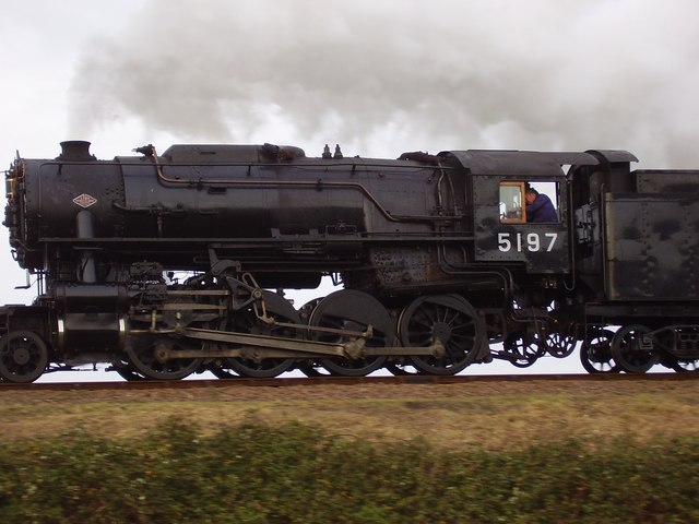 Locomotive 5197 approaching Weybourne Visiting locomotive s160 5197 at the North Norfolk railway on a Santa special.